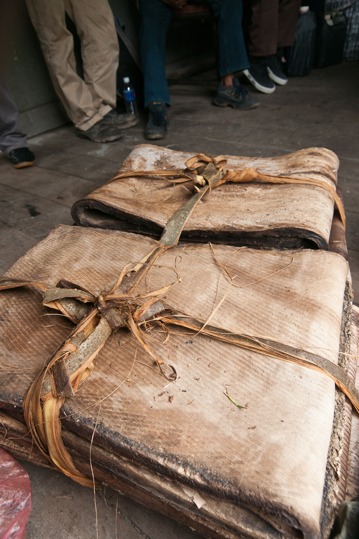 Padas Valley, Sabah: Natural Rubber from Padas Valley in Sabah, Malaysia